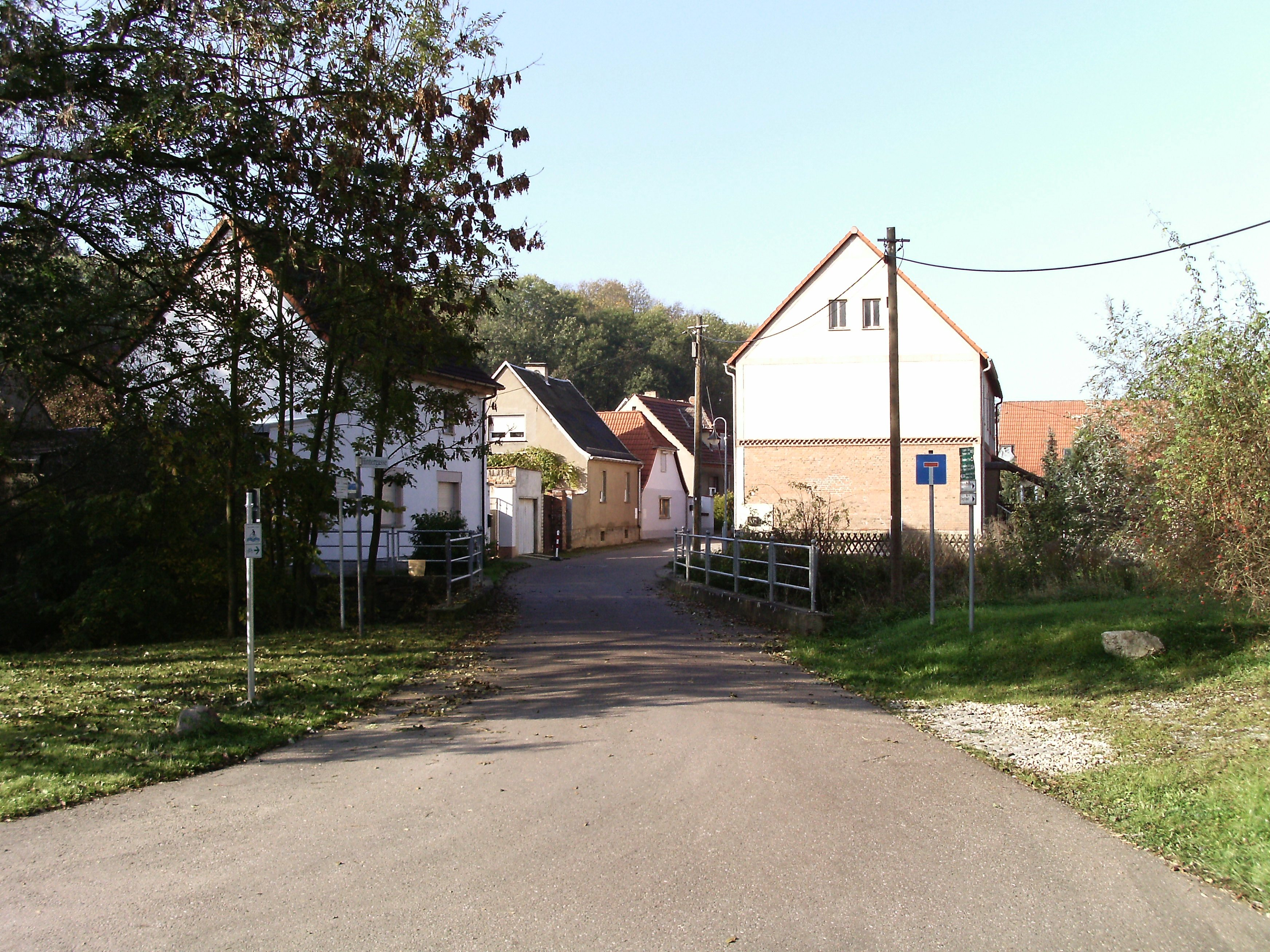 Hintergasse in Dehlitz/Saale (Lützen, district of Burgenlankreis, Saxony-Anhalt)